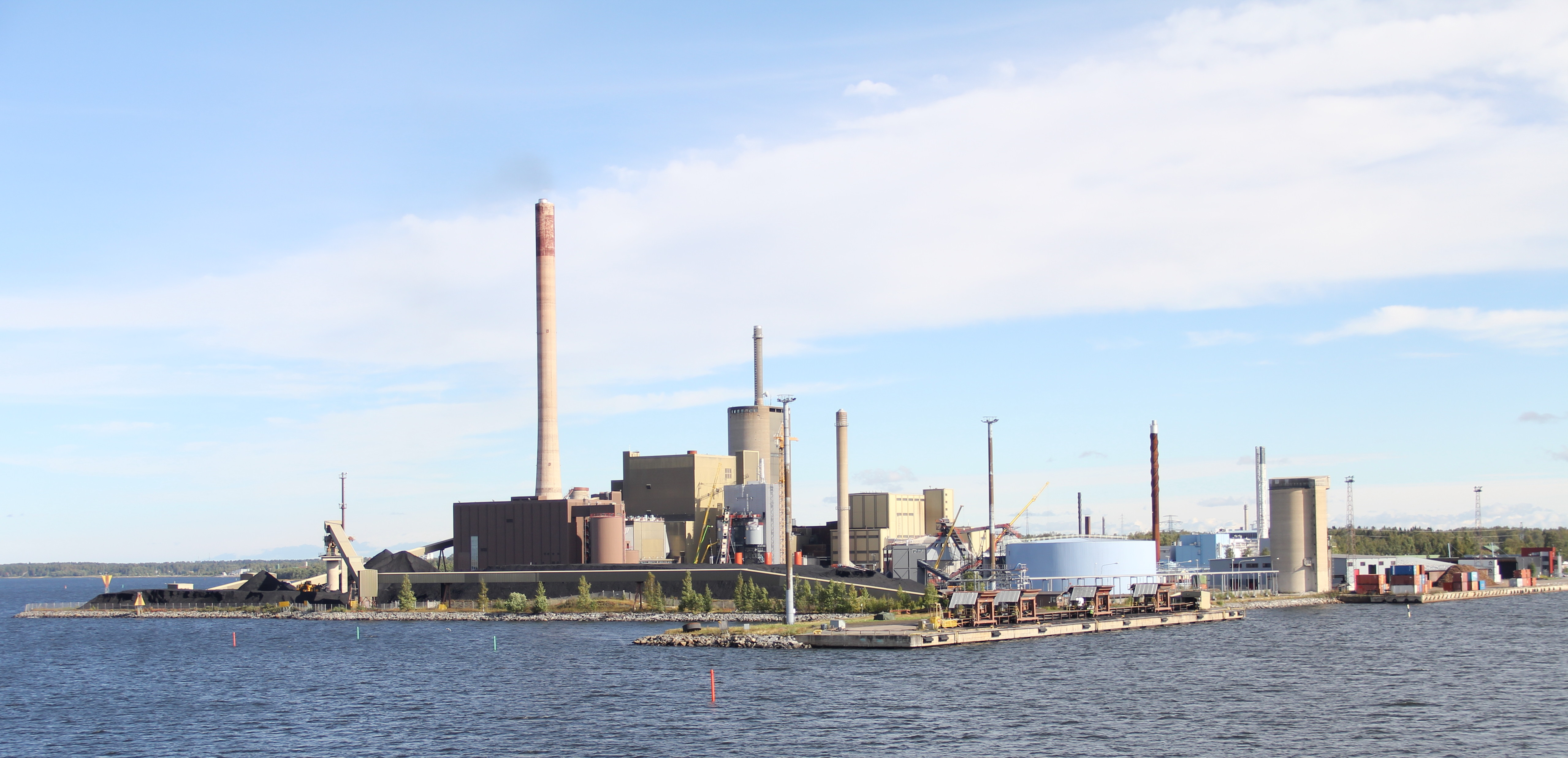 Vaskiluoto power plant in Vaskiluoto island, Vaasa, Finland. Photo taken on board M/S RG I.